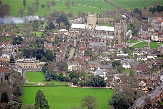 Aerial view of Wells Cathedral and the cathedral precinct including Vicars' Close and Wells Cathedral School.